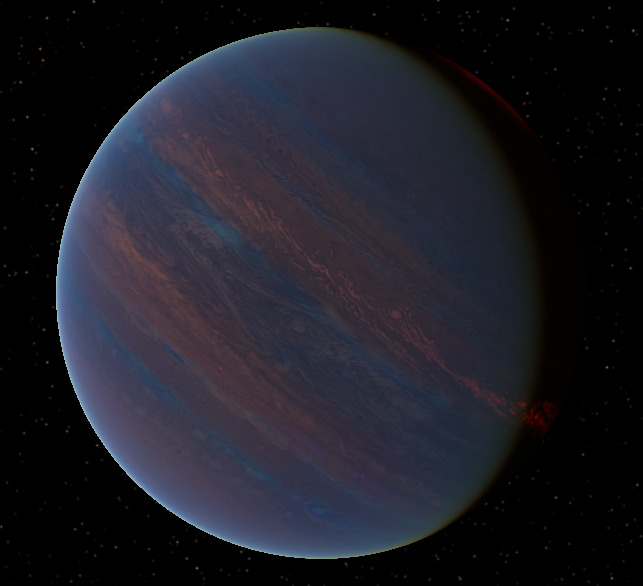 Planet Pi2 Ursae Majoris b.